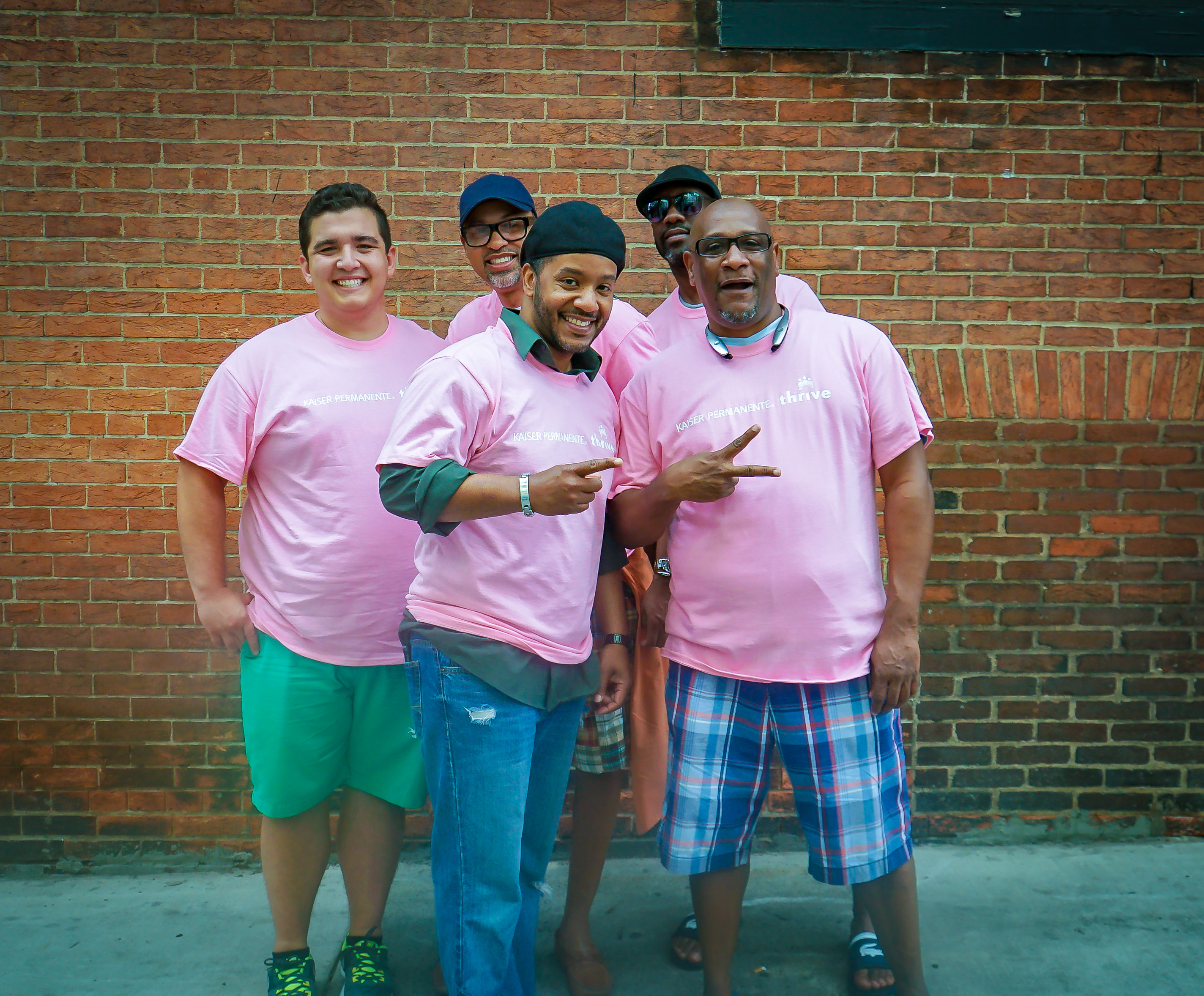 2016.06.17 Baltimore Pride, Baltimore, MD USA